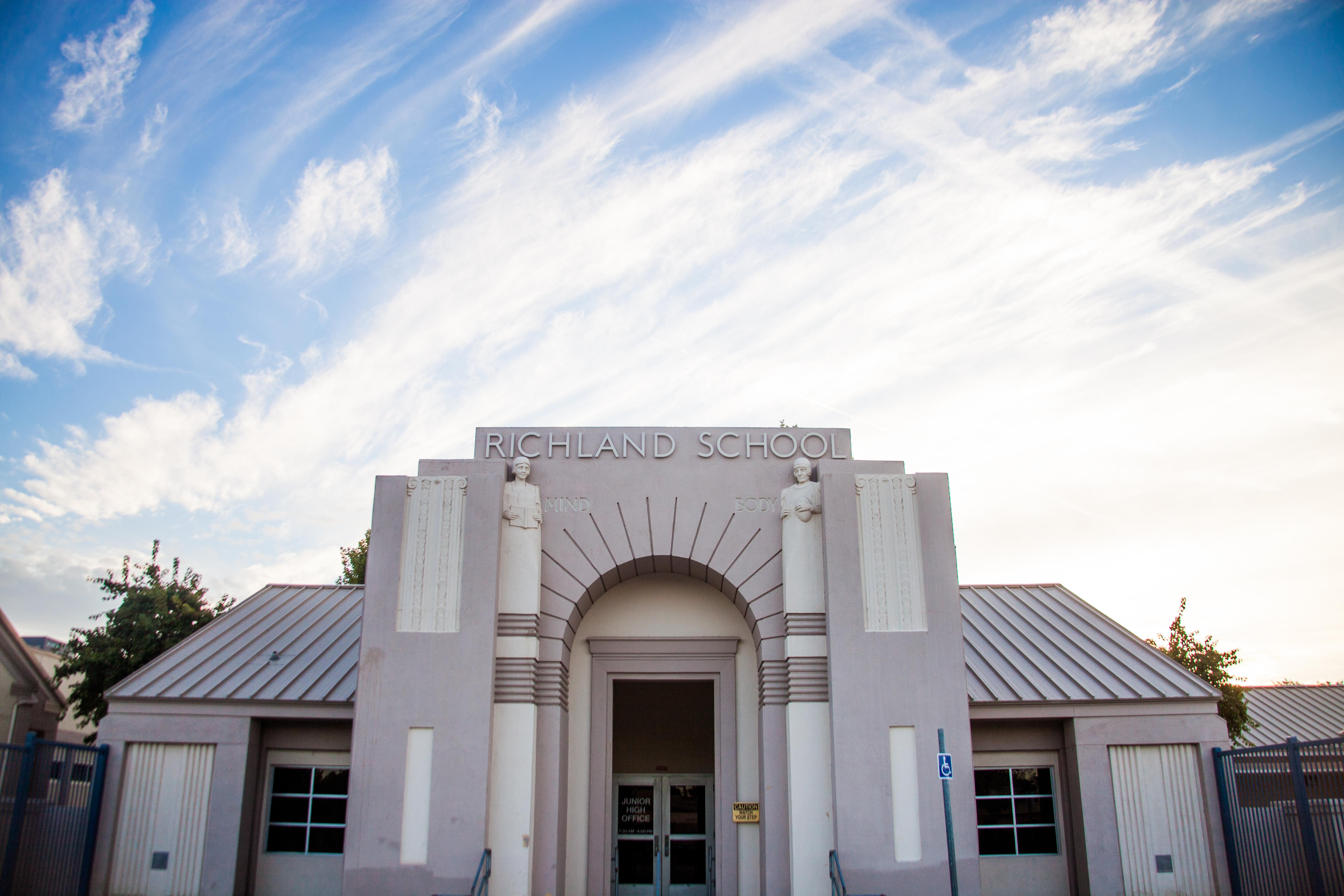 Richland Junior High, located in Shafter, California